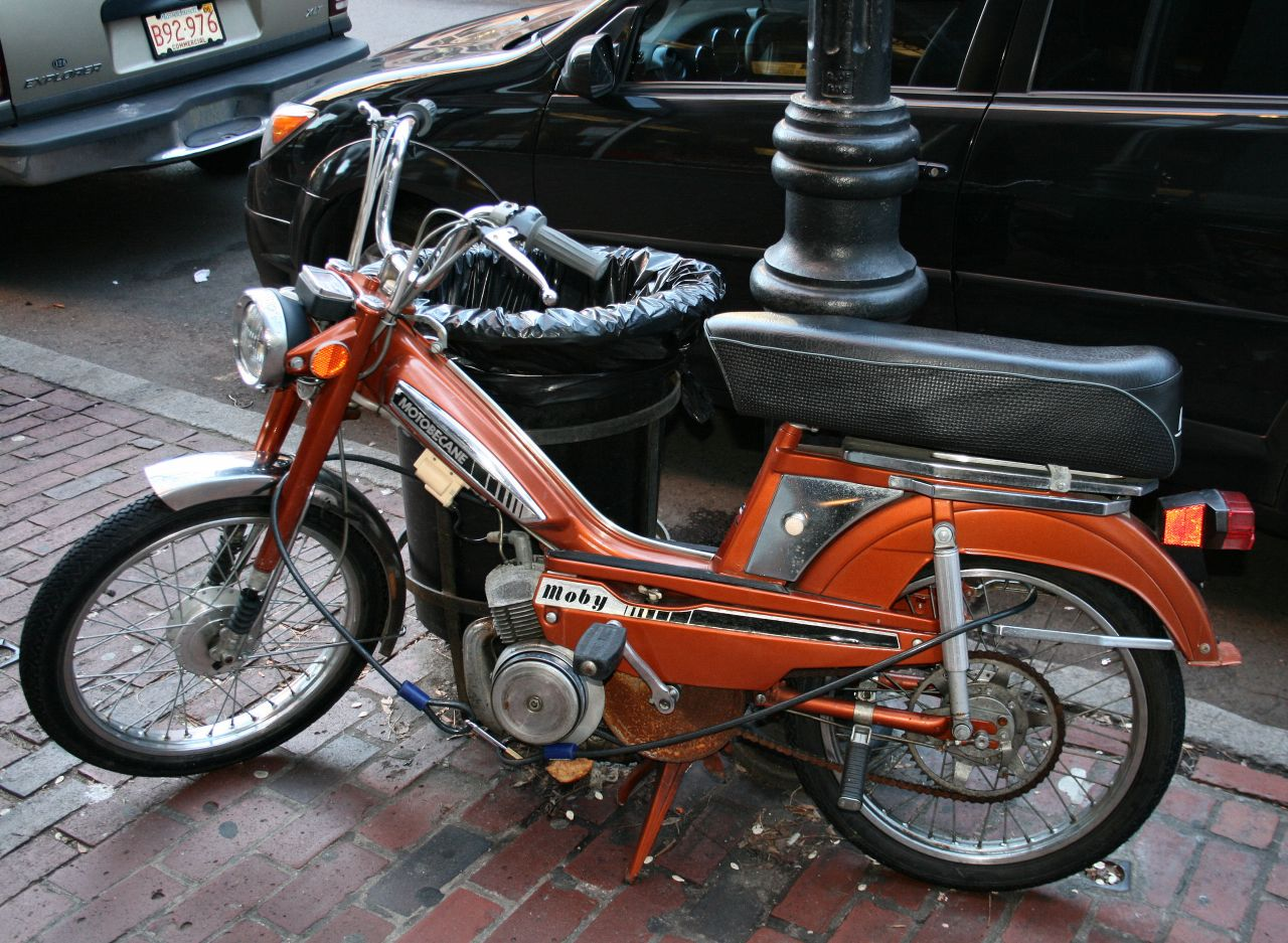 Motobecane Moby Moped